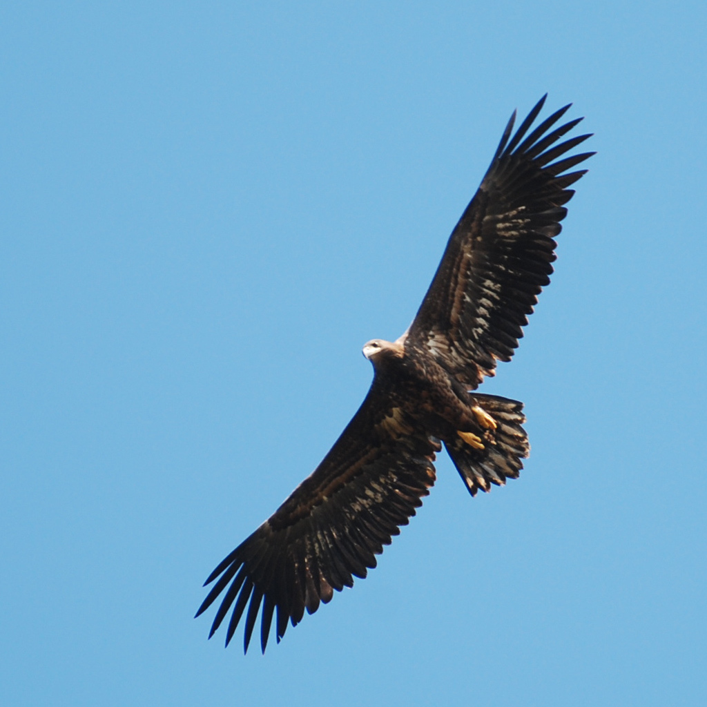 A juvenile White-tailed Eagle flying near its nest on Litløya, Norway.